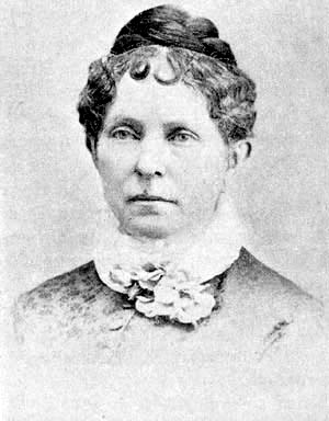 Metta Victoria Fuller